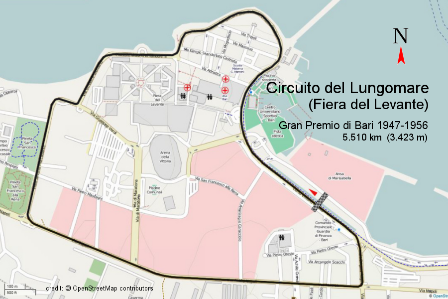 Circuito del Lungomare - Bari 1947